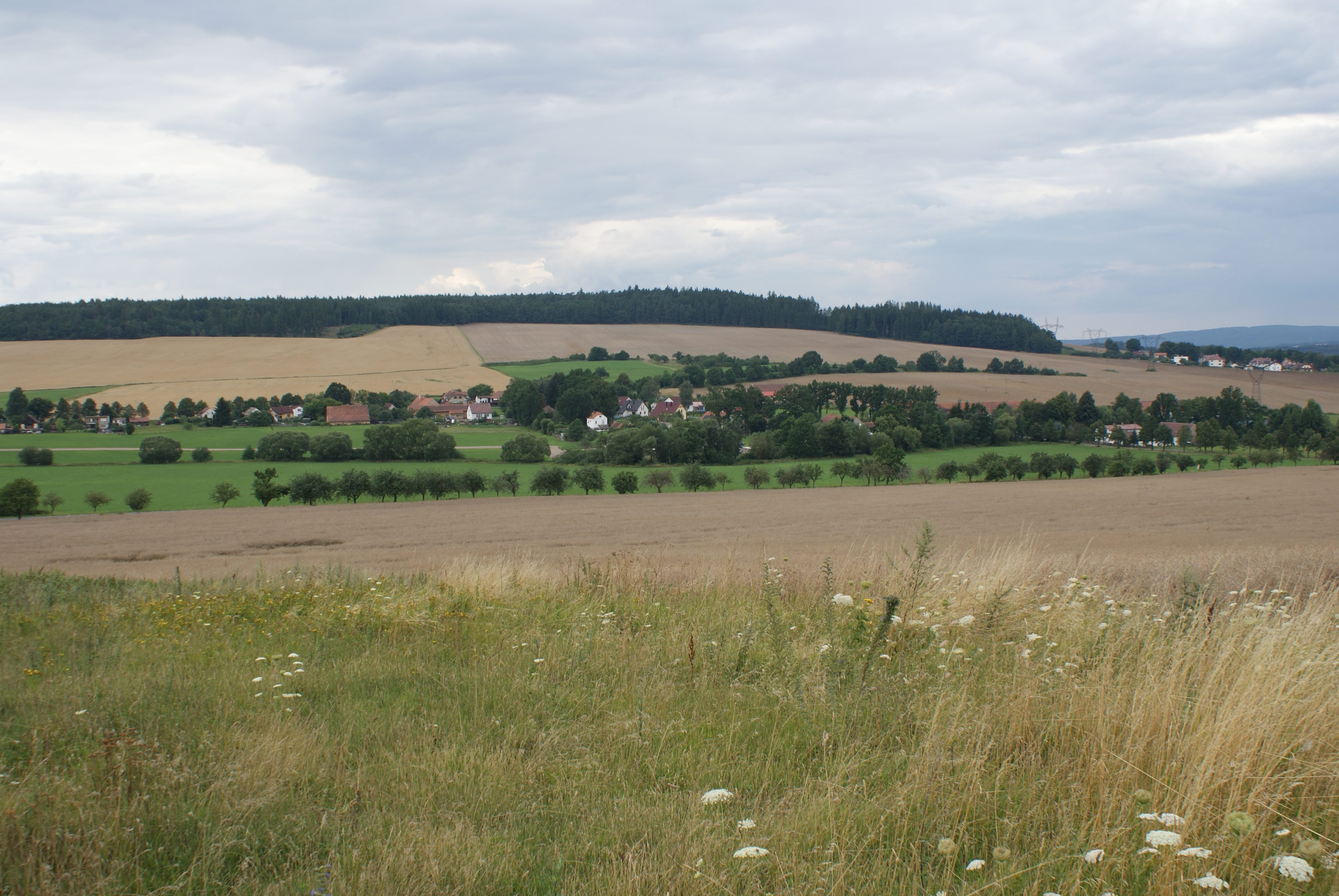 Komorno (Blovice), a village in Plzeň-South District, Czech Rep., general view.